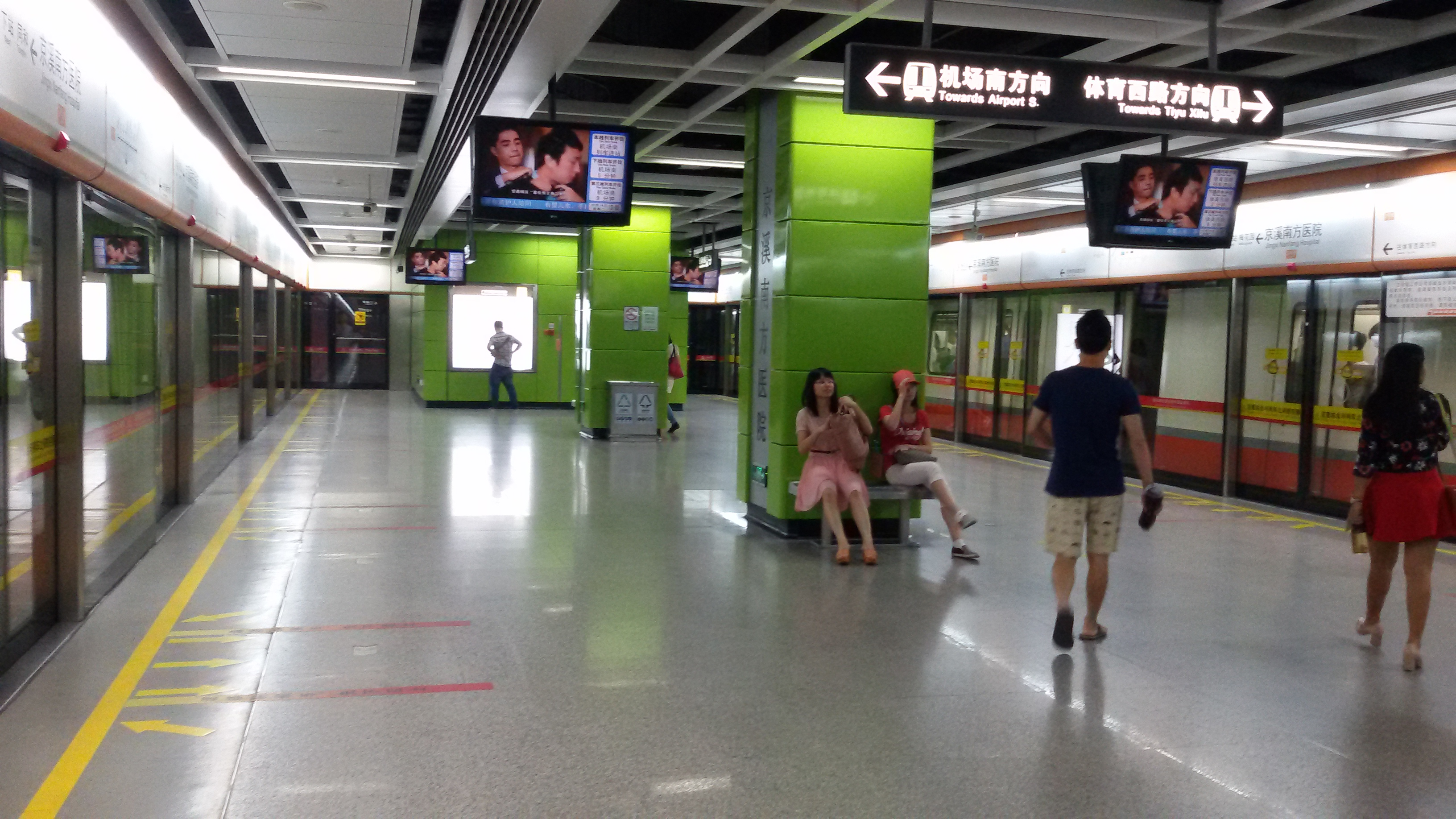 Station Platform for Jingxi Nanfang Hospital Station in Guangzhou Metro 粵語: 廣州地鐵，京溪南方醫院站嘅月台。